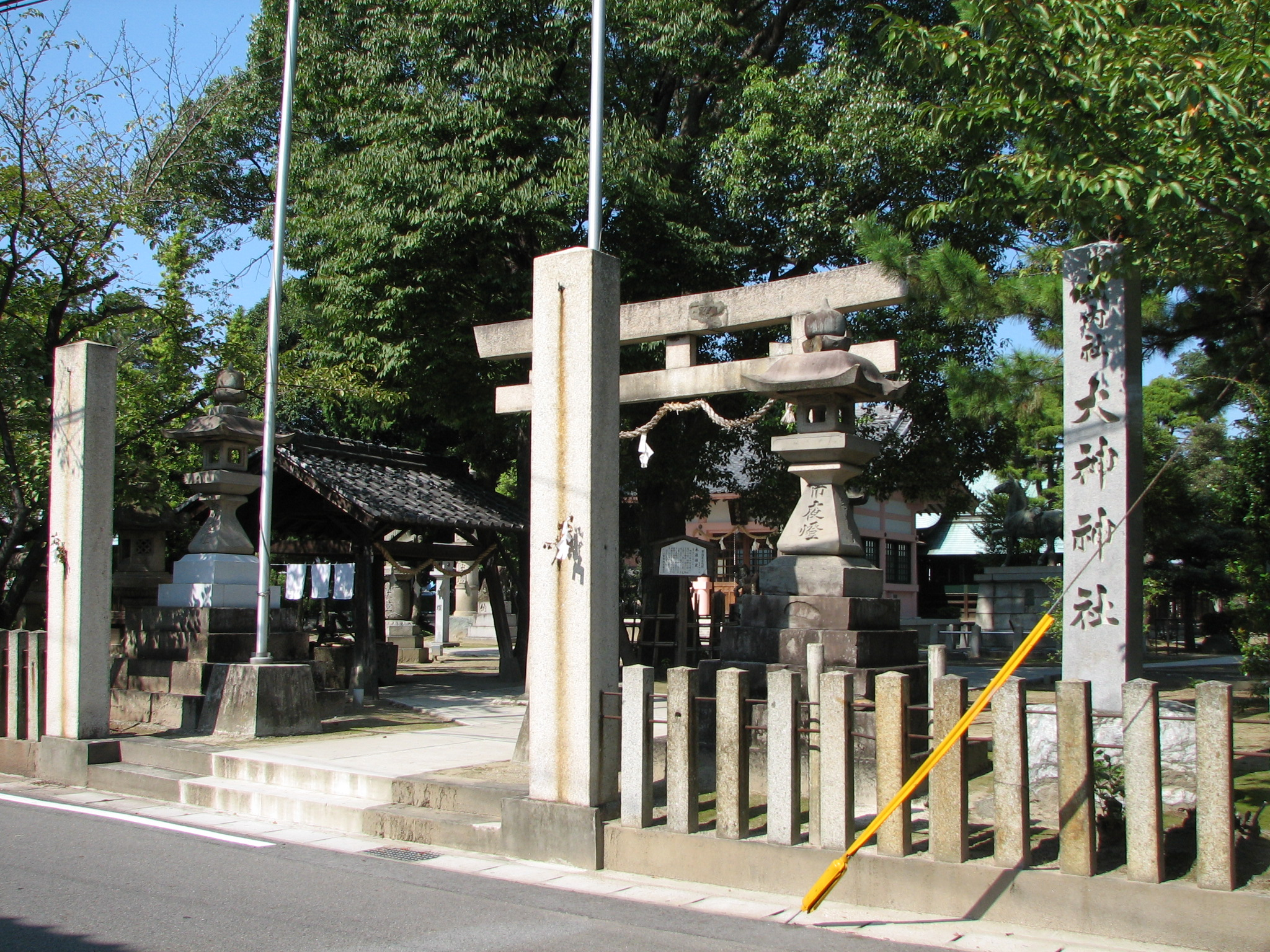 the torii of Oomiwa Shrine, Ichinomiya, Aichi, Japan 大神神社鳥居（愛知県一宮市）